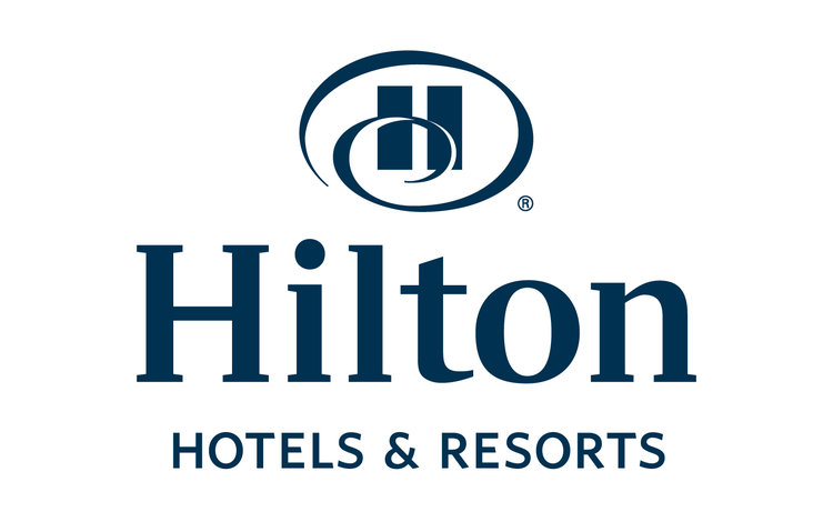 Logo for Hilton Hotels and Resorts